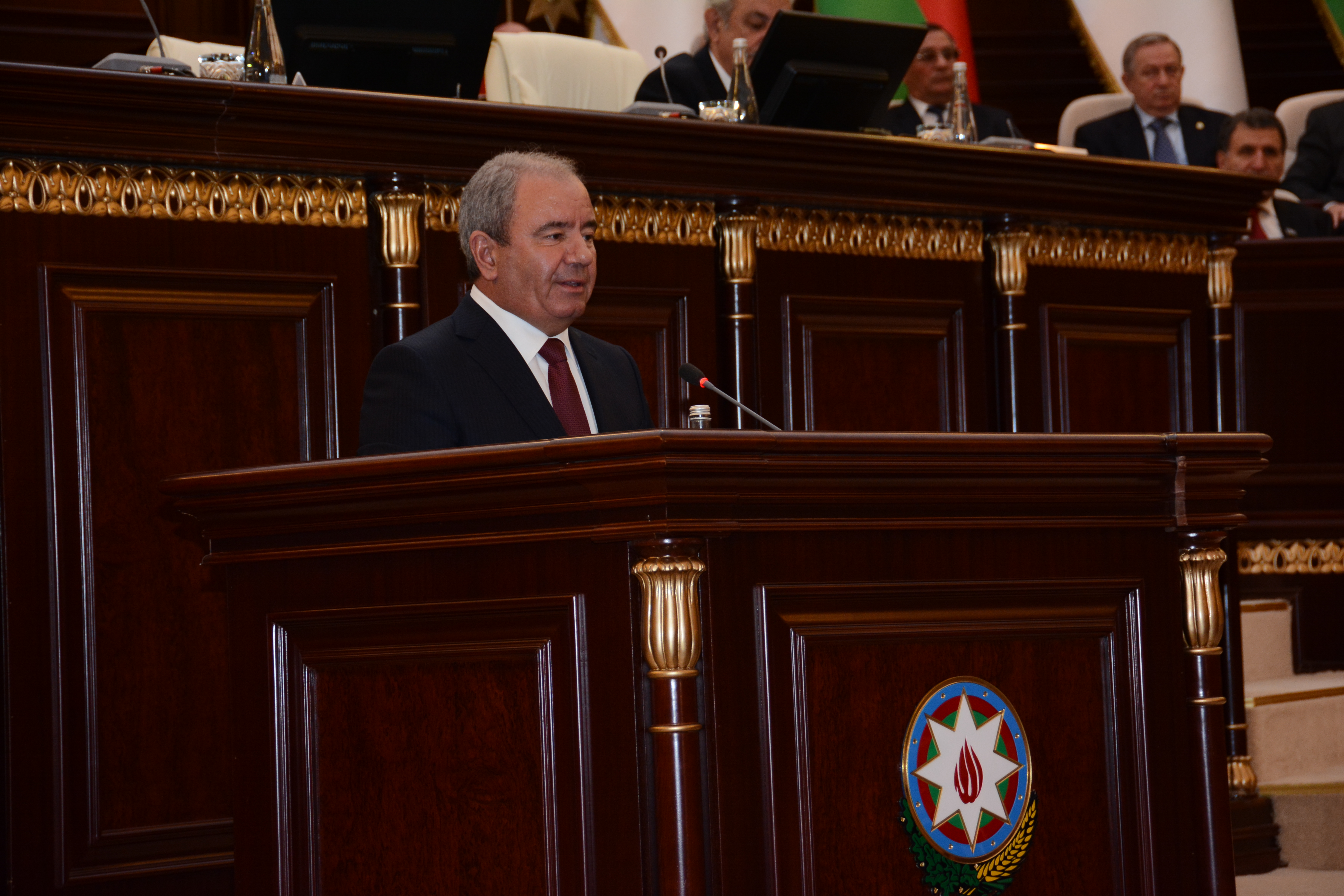 Azerbaijan National Academy of Sciences. The first Congress of the Azerbaijani scientists